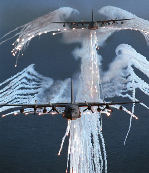 US Air Force Special Operations Command MC-130P Combat Shadow aircraft of the 21st Special Operations Squadron launch flares, demonstrating one tactic to defeat IR guided missiles.